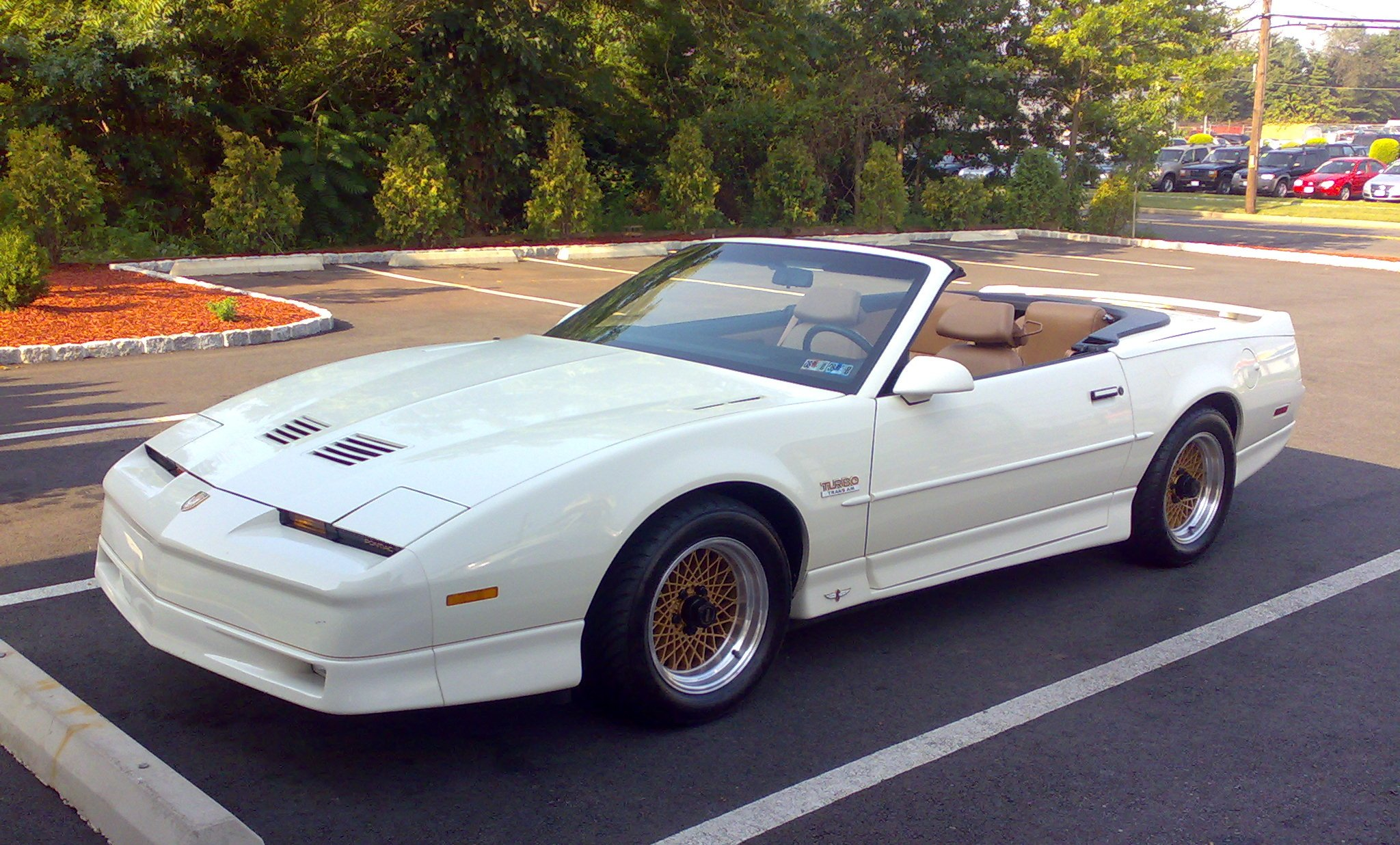 1989 Pontiac 20th Anniversary Turbo Trans Am Convertible